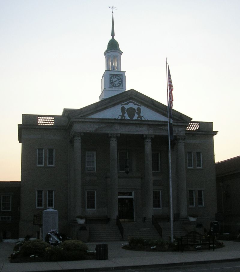 Grant County, Kentucky Courthouse. Built in 1939.